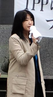 Yukiko Miyake, Head of the 7th Election Campaign Office for the House of Councillors Proportional Representation, People's Life Party, performed street oratory about the Trans-Pacific Partnership in Shibuya Ward, Tōkyō Metropolis on April 21, 2013.